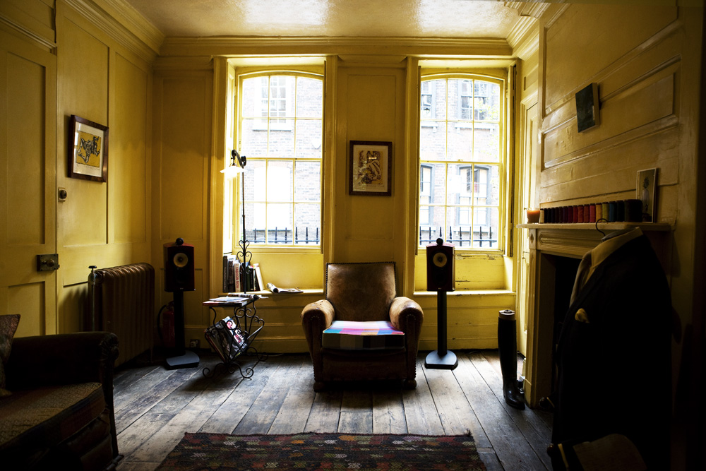 Inside Timothy Everest's Spitalfields, London, atelier